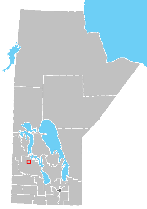 Location of Dauphin, Manitoba